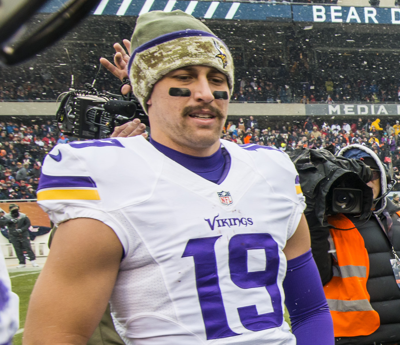 Minnesota Vikings wide receiver, Adam Thielen, in a game against the Chicago Bears on November 16, 2014.